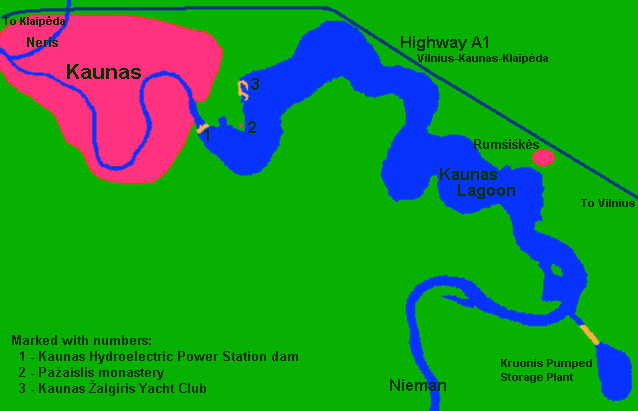 Very rough and schematic map/scheme of Kaunas Lagoon in Lithuania. Created by Renata3. Google Maps and Mapquest was used as reference.